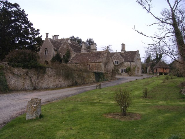 Sheldon Manor A private estate, open to the public from Easter to October.